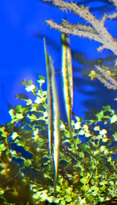 Photo of Aeoliscus strigatus at Birch Aquarium